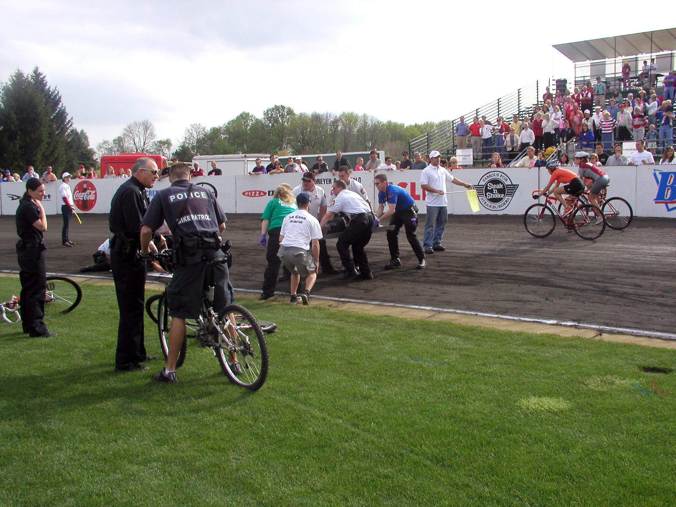 Medical teams attend to two riders hurt in a crash during the 2004 Women's Little 500 at Indiana University Bloomington. Yellow flag caution is in effect. Photo taken in April, 2004 by User:Durin-en